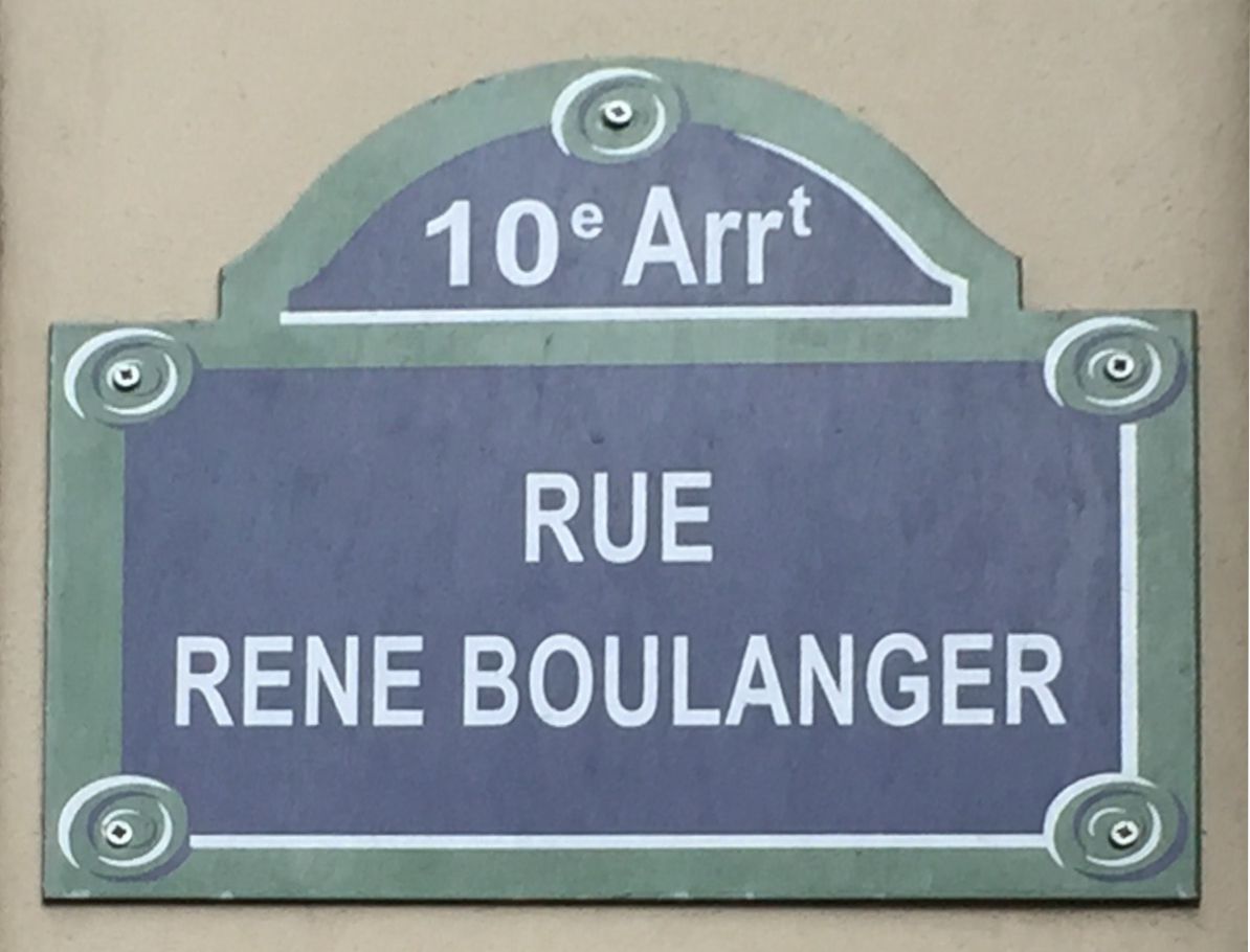 This image was uploaded as part of L'Été des villes 2015. Rue René-Boulanger (Paris).